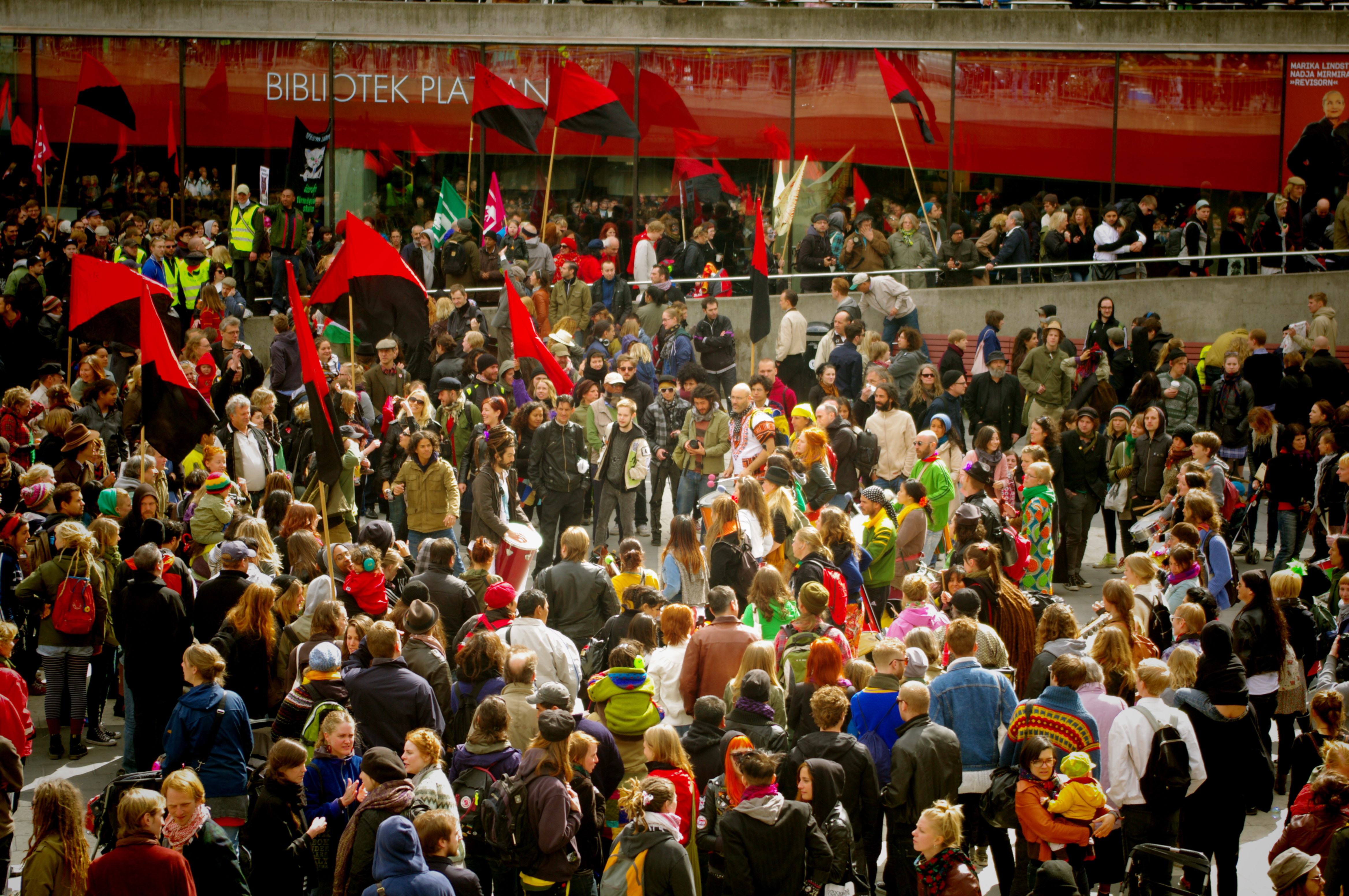 Mayday rally at the Sergels torg square, 2011, organized by the Stockholm Local Federation of the SAC and the Anarcho-syndicalist Youth Federation Stockholm and attended by roughly 4,000 people.